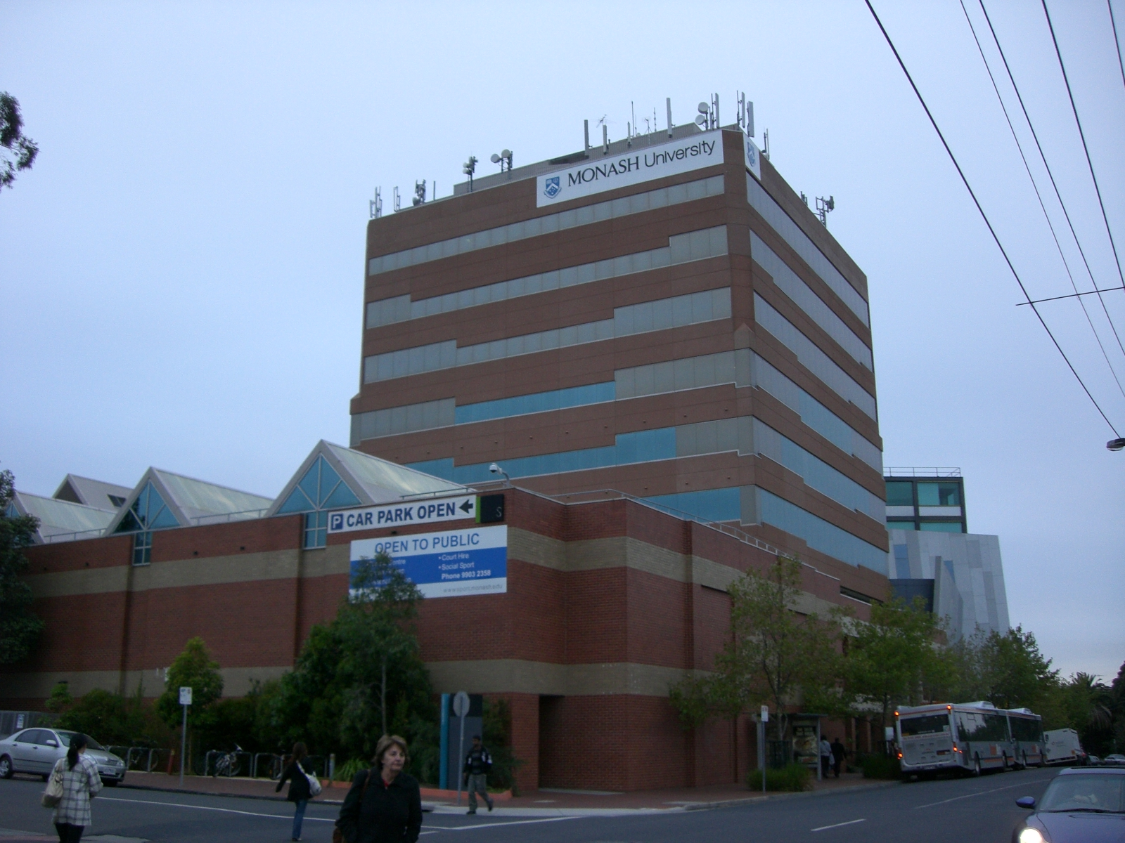 Monash University - Caulfield Collage